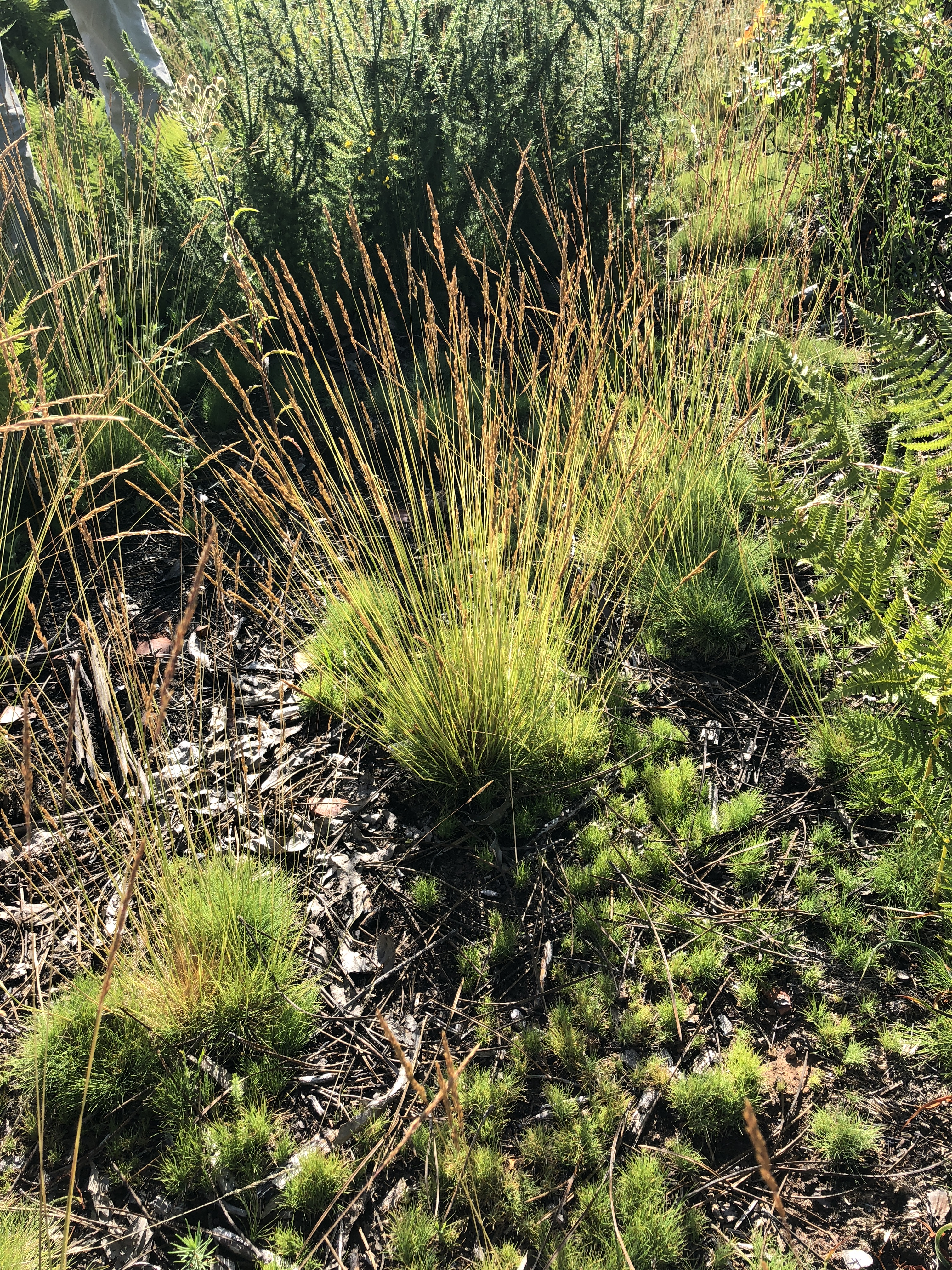 Agrostis curtisii, Pedrógão Grande, Portugal